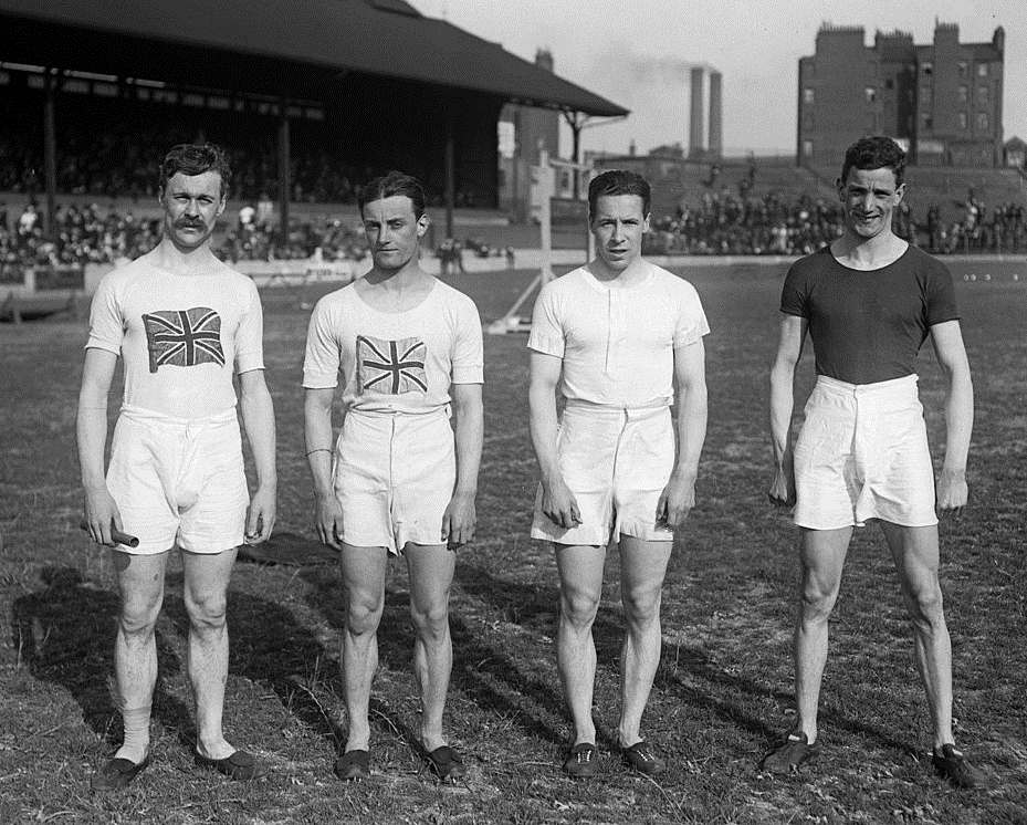 Competitors in the Civil Service Athletic Sports 220 yards race at Stamford Bridge in London. (L to R) V H D'Arcy, W R Applegarth, K H Macintosh and D H Jacob.